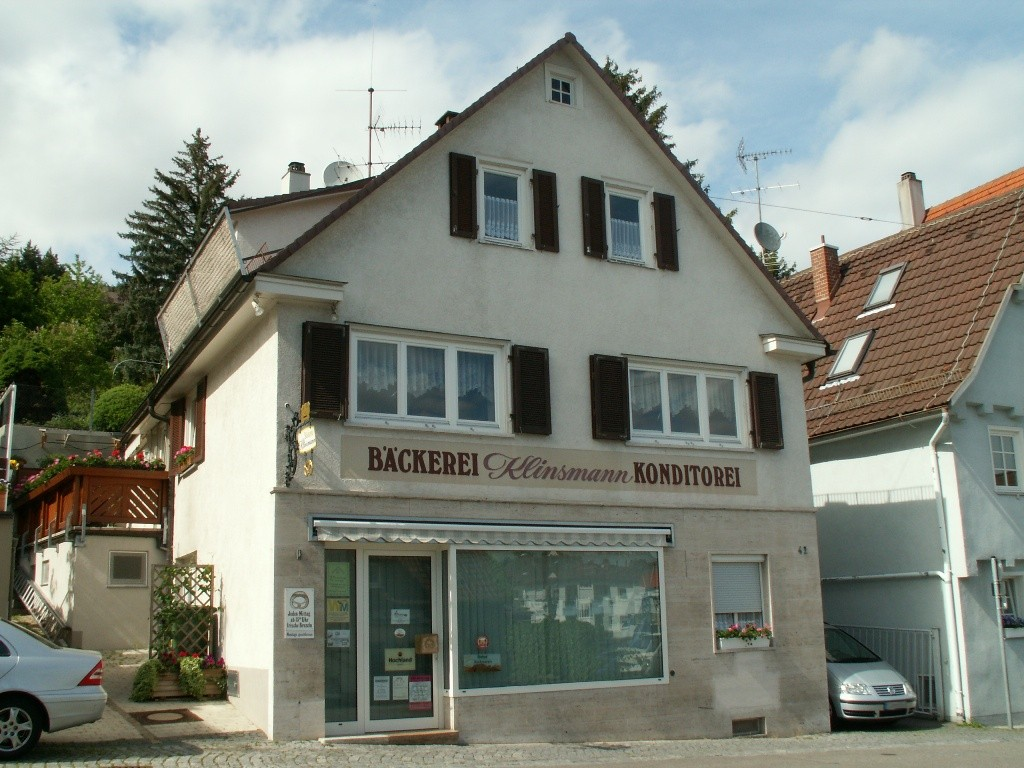 The bakery of Juergen Klinsmann's family in Stuttgart-Botnang, where he served his apprenticeship